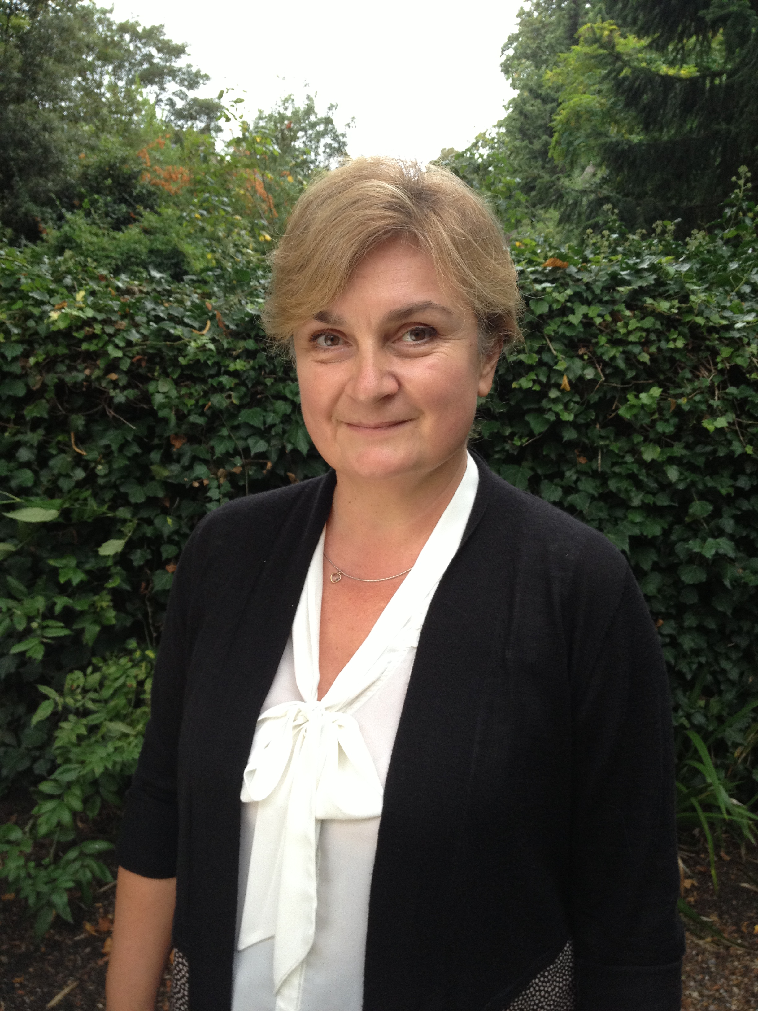 Dr Kate Tchanturia, PhD, FAED, FBPS, FHAE